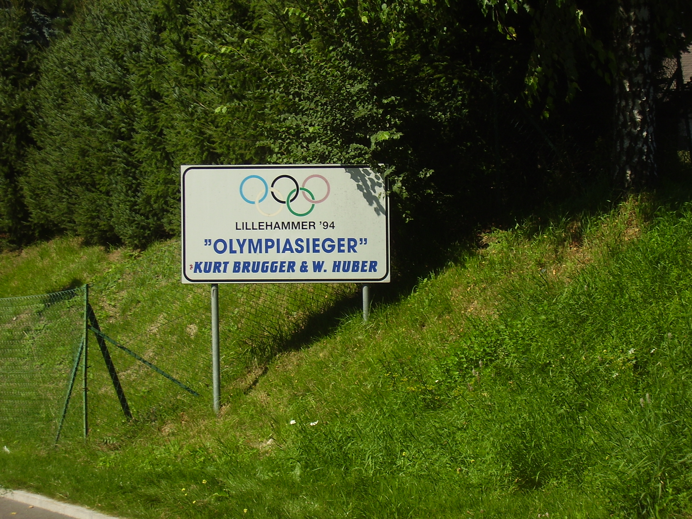 A signal welcoming two olympic winners born in St.Georgen (Bruneck, Italy)